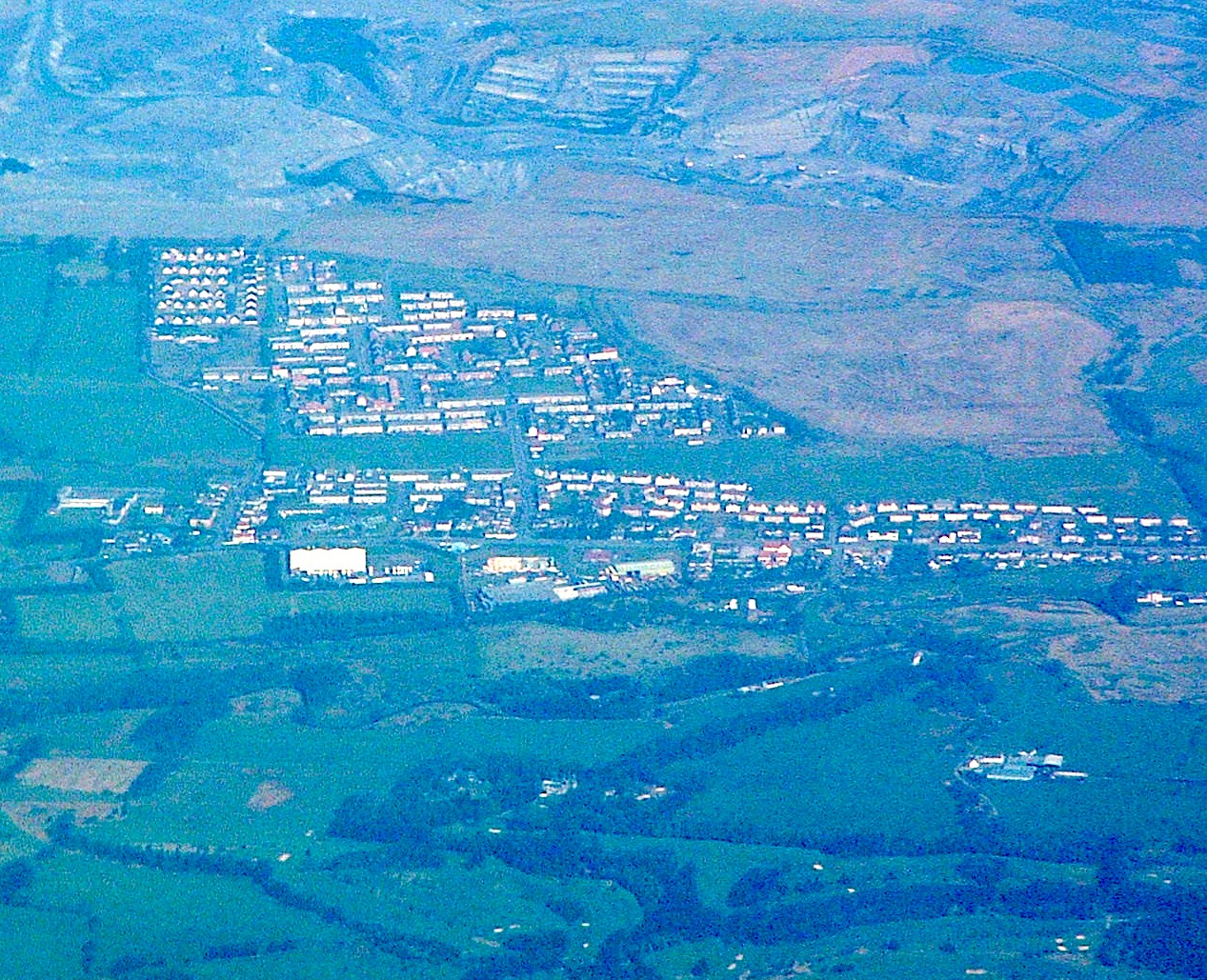 A photograph of Plains taken by jd2207 from an Edinburgh to London jet plane, April 2003. The view looks to the North. Main Street runs across the middle of the shot. A development of new houses from 2004 / 2005 is yet to be built in the north-east corner. Easter Moffat golf course fills the lower half while the volcanic-like landscape to the top of the image is one of several surrounding open-cast coal mineworks.